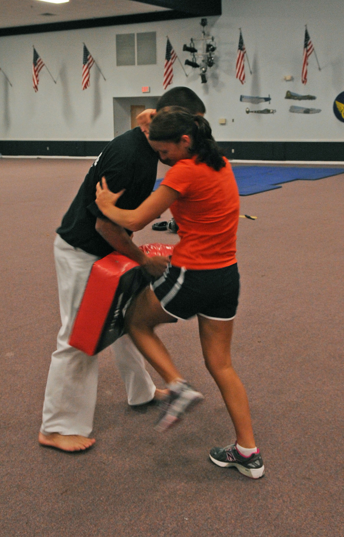 BARKSDALE AIR FORCE BASE, La. -- Staff Sergeant Kari Payne, 2d Force Support Squadron’s assistant base personnel reliability program manager, practices the knee-to-groin attack on Johnathan Hasty, self-defense instructor, at Hoban Hall here April 29. More than 20 participants attended the women’s self-defense class, where they were taught many different self-defense techniques.(U.S. Air Force photo by Senior Airman La’Shanette V. Garrett) (RELEASED)